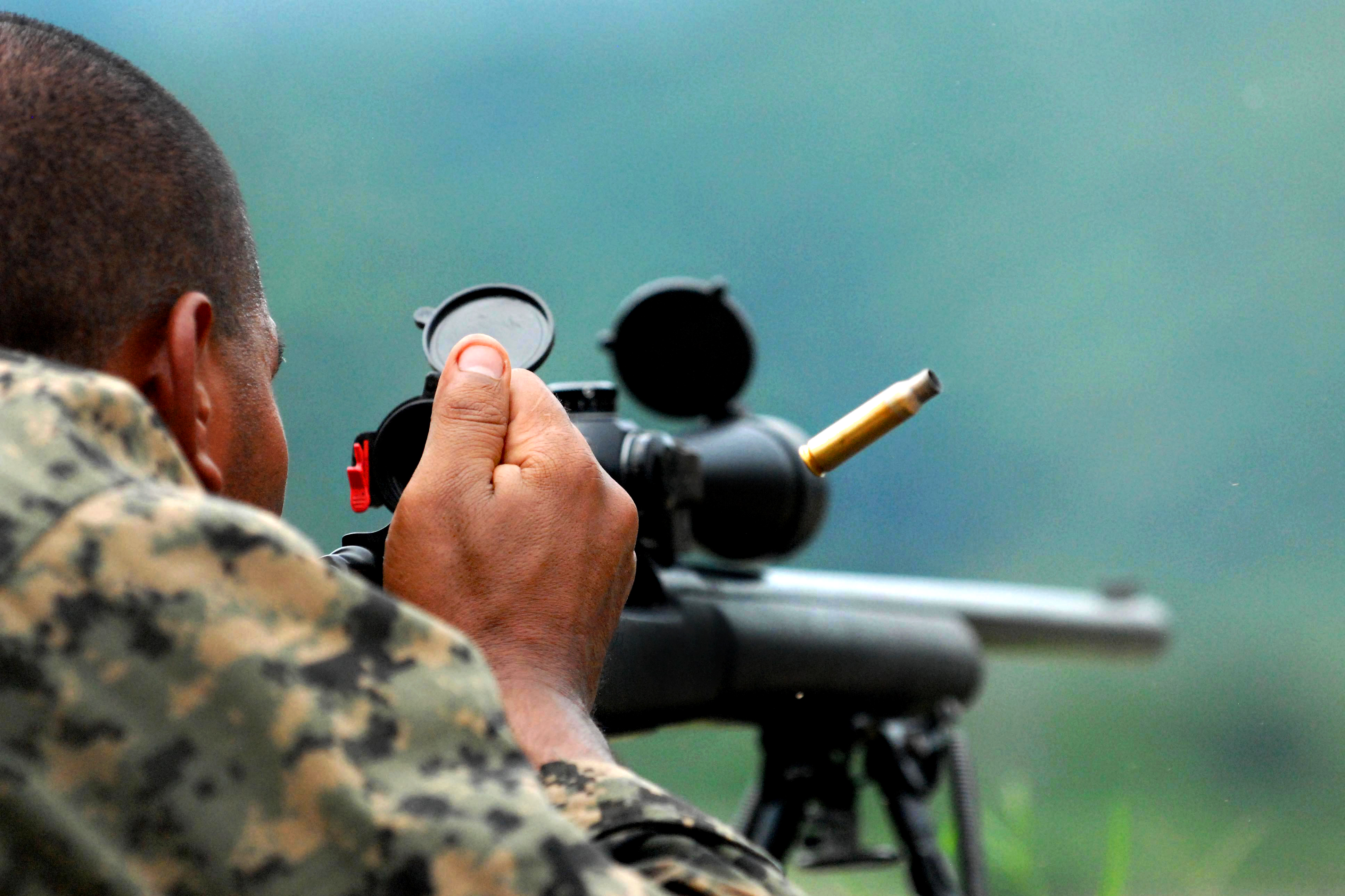 The shooter from the Honduran Special Operations Sniper Team ejects a rifle cartridge after taking a carefully aimed shot during the snaps and movers event of Fuerzas Comando 2011 at Shangallo Range in Ilopango, El Salvador, June 16, 2011. U.S. Army photo by Sgt. Casey A. Collie